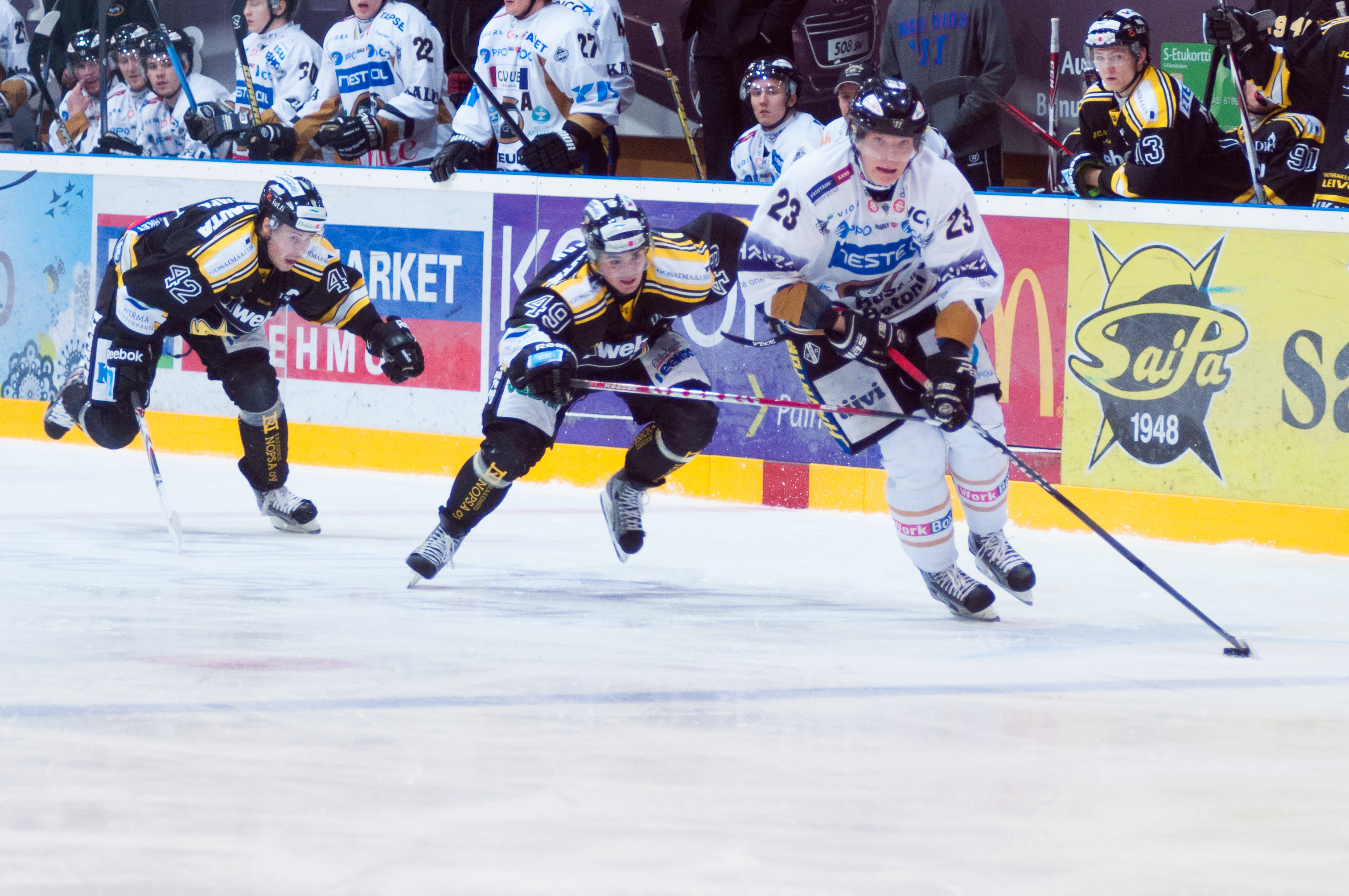 Joonas Kemppainen (23) of Oulun Kärpät trying to get away from Simon Backman (49) and Tommi Jokinen (42) during a hockey game against SaiPa Lappeenranta in Lappeenranta, Finland.